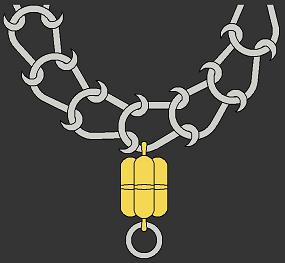 Order insignia of a chivalric order "Rudenband", founded 1413. Based on Konrad von Grünenberg's armorial (1483).